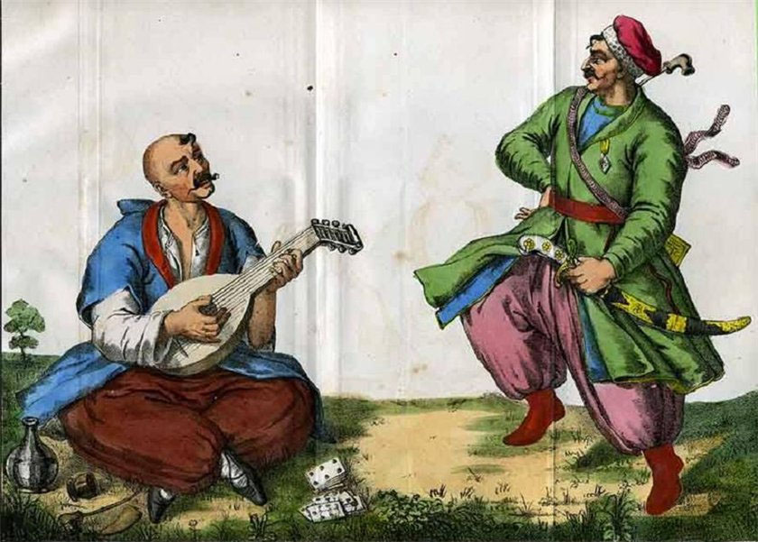 Coloured lithograph from Alexander Rigelman's publication of 1847 which chronicles the story of Ukraine and its people. The lithograph depicts 17th century Zaporizhian Cossacks, one of whom is playing a lute/kobza